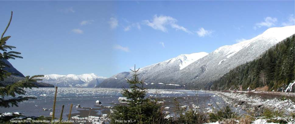 Skeena River at Telegraph Point, approximately 60 kilometers east of Prince Rupert, British Columbia. Photo by Author